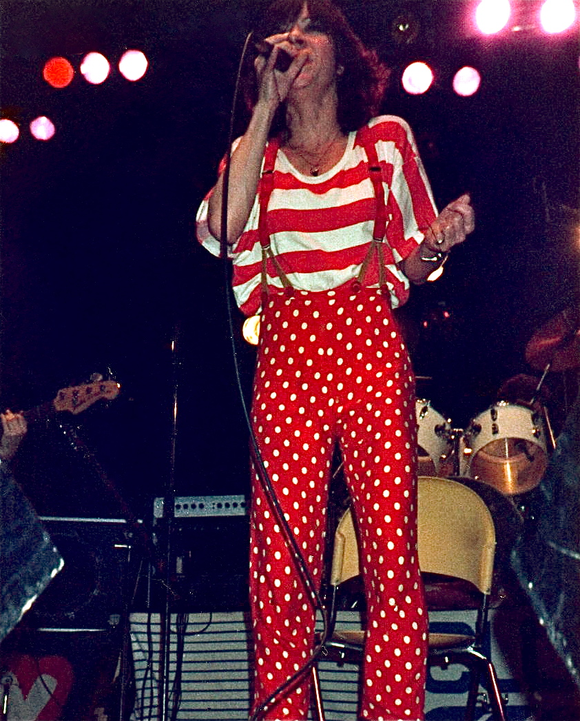 Austrian singer and actress Maria Bill at the “Austria Rockfestival” 1985 in Voitsberg/Styria